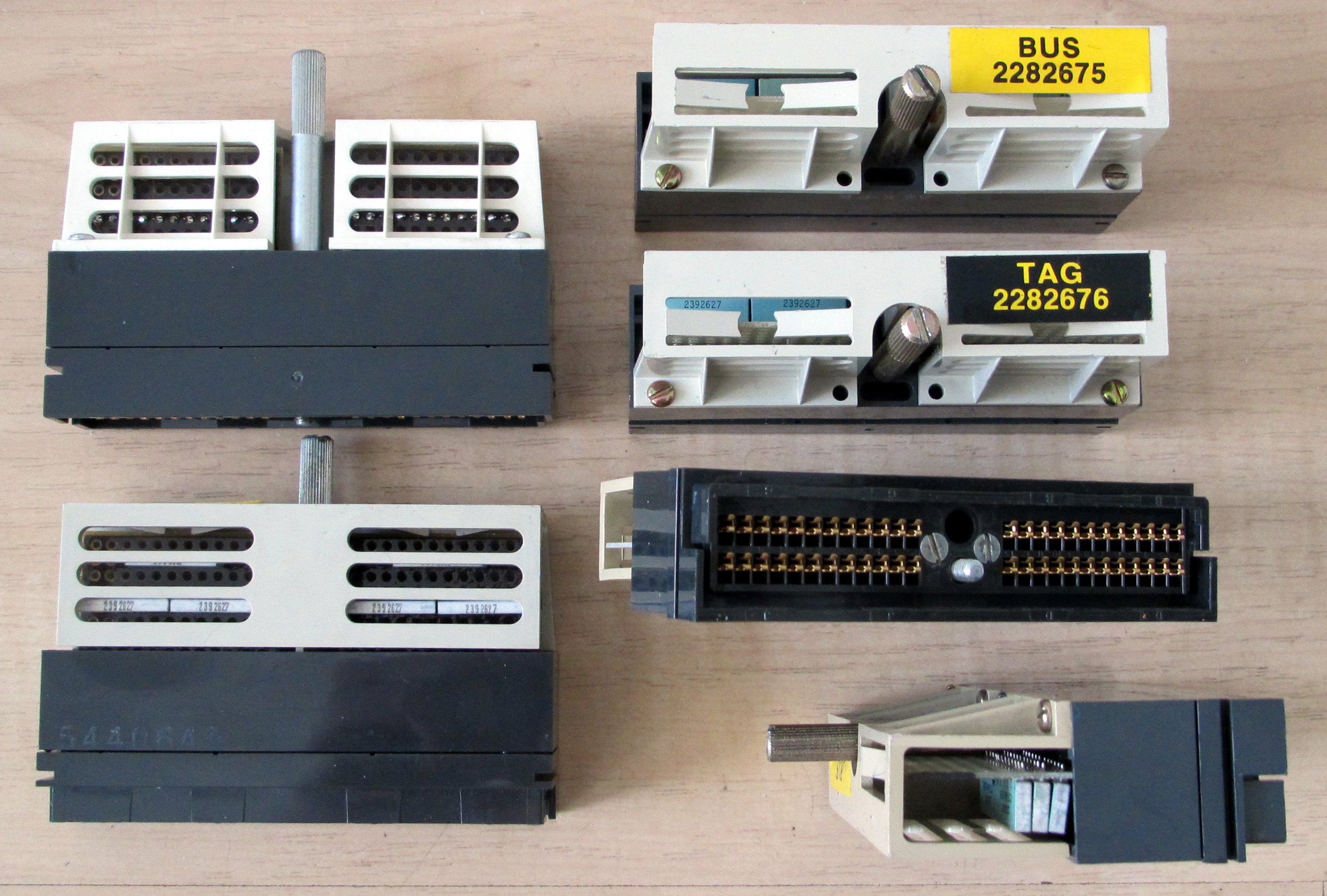 These are IBM System/360 channel terminators (Bus and Tag versions). They have a rectangular profile, and not the 'castellated' profile of the later System/370 terminators.